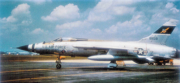 F-105D of the 4th TFW deployed to McCoy Air Force Base in Orlando, FL during the Cuban Missile Crisis in October 1962.